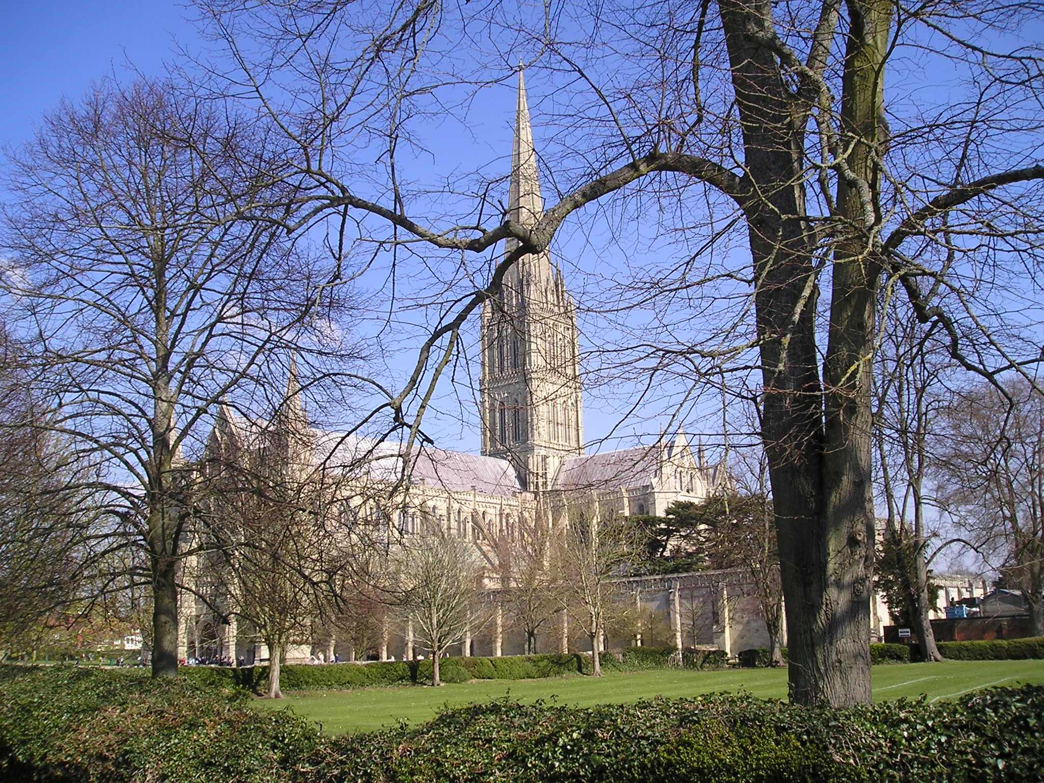 Salisbury Cathedral